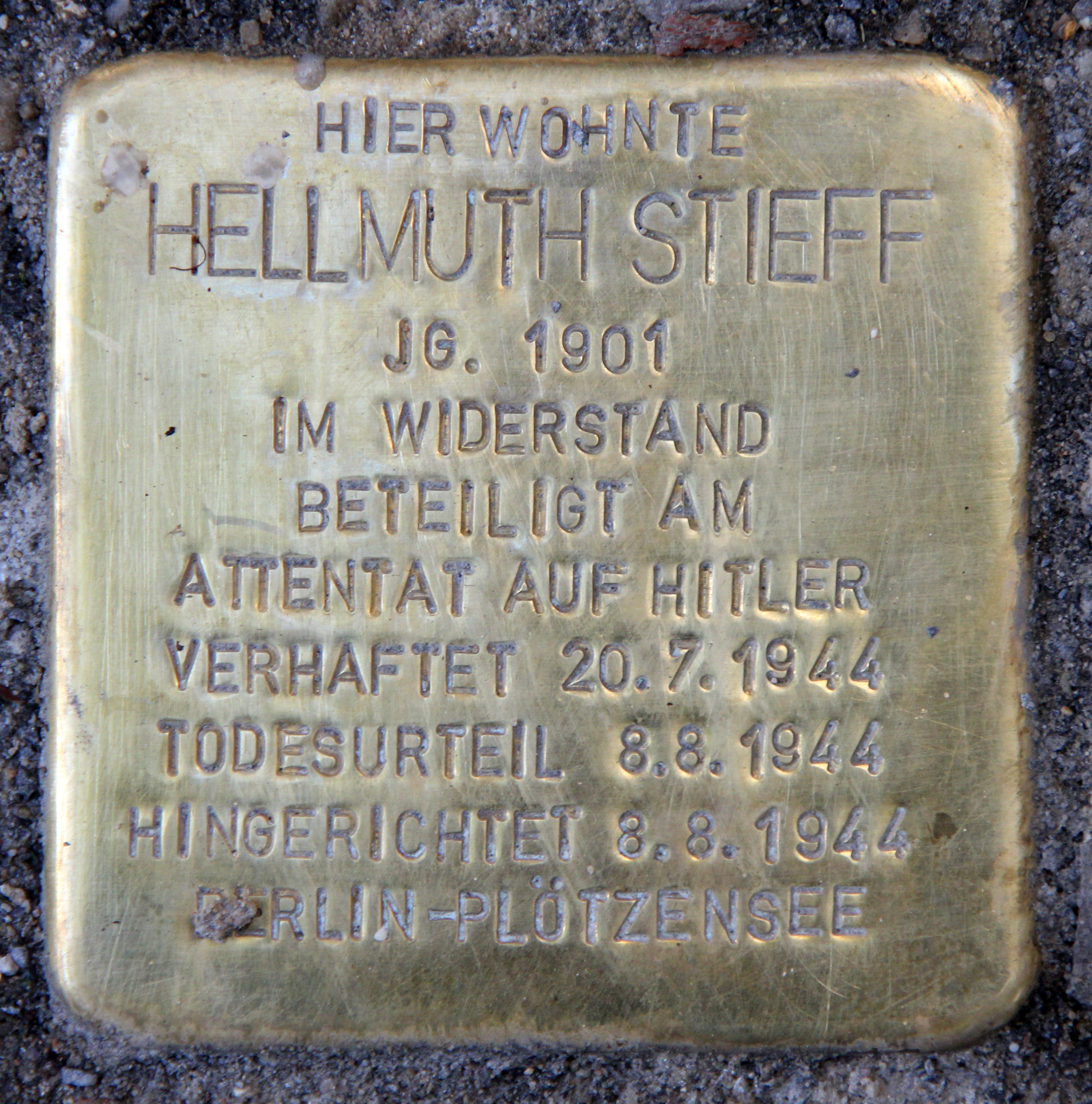 "Stolperstein" (stumbling block), Hellmuth Stieff, Sybelstraße 66, Berlin-Charlottenburg, Germany